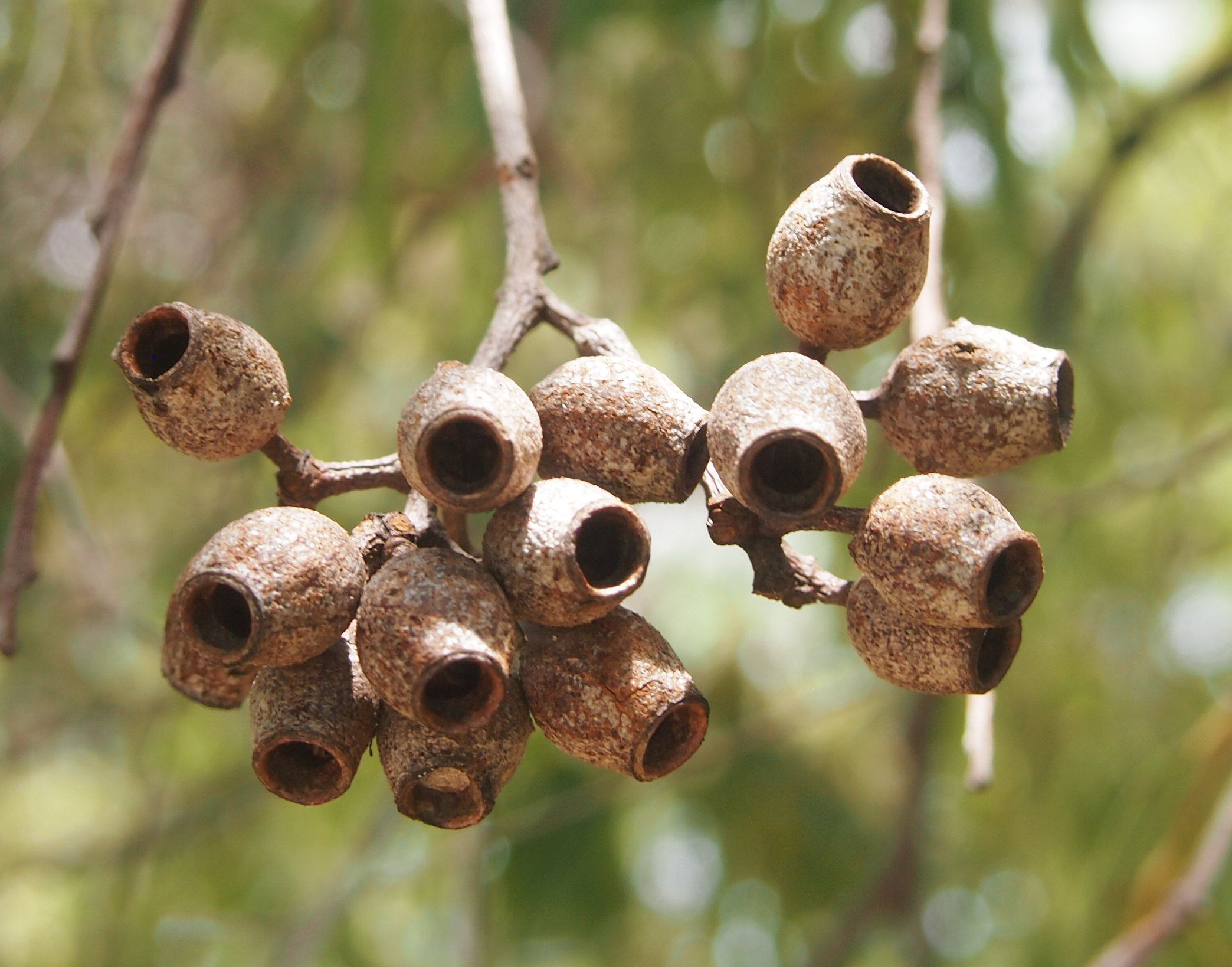 Corymbia intermedia capsules